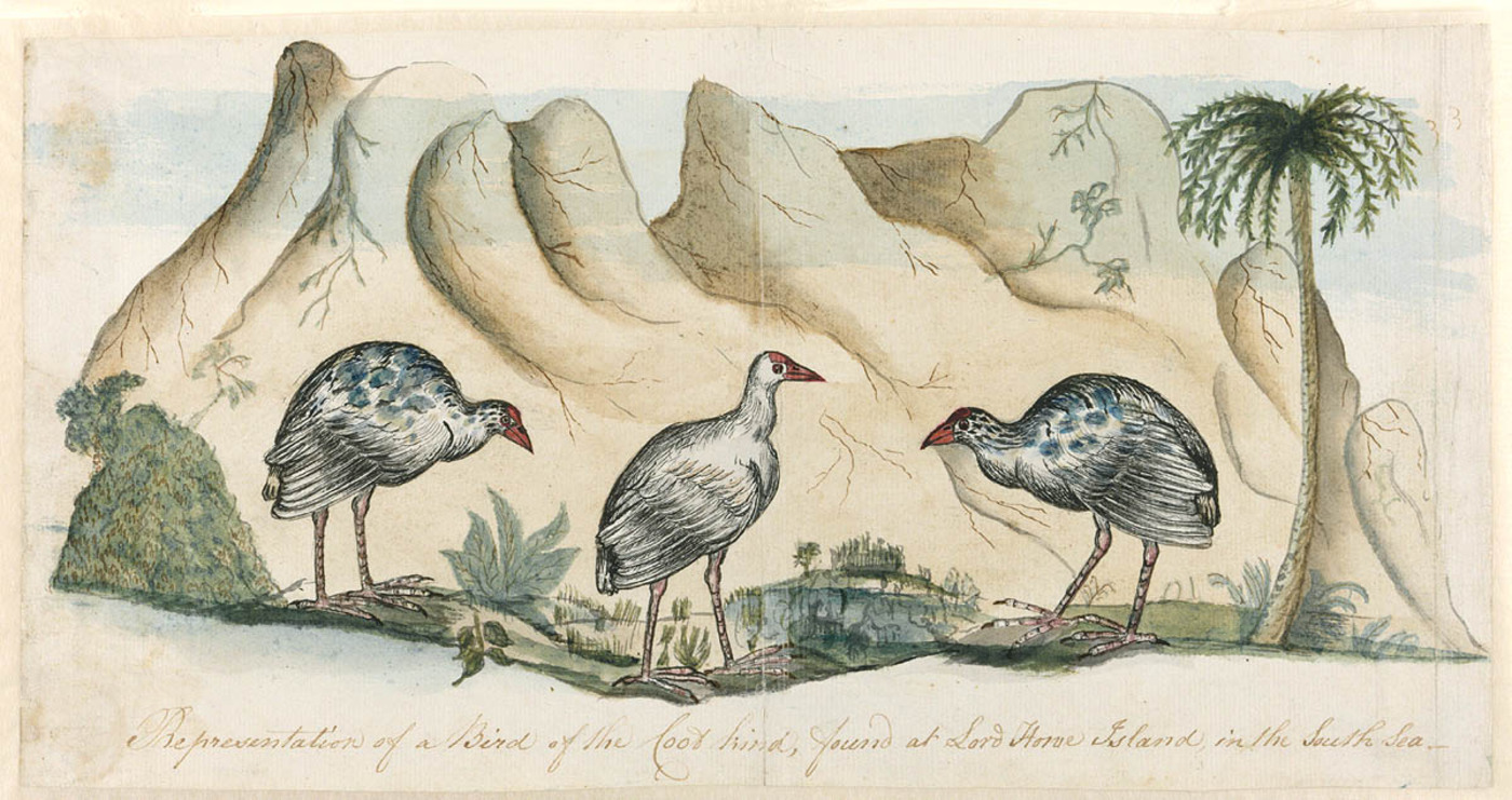 Representation of a Bird of the Coot kind (Porphyrio albus'), found at Lord Howe Island in the south sea. From drawings from his journal. `A Journal of a Voyage from Portsmouth to New South Wales and China in the Lady Penrhyn ...', 1787-1789. By Arthur Bowes Smyth.